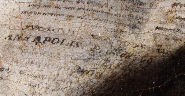 Detail of a portrait of Anne Catharine Hoof Green showing the words "Annapolis printer to..." on the paper she is holding, referring to the Maryland legislature's choice to have Anne succeed her husband as the official printer of the colony of Maryland. Rotated 180 degrees from original portrait for legibility.